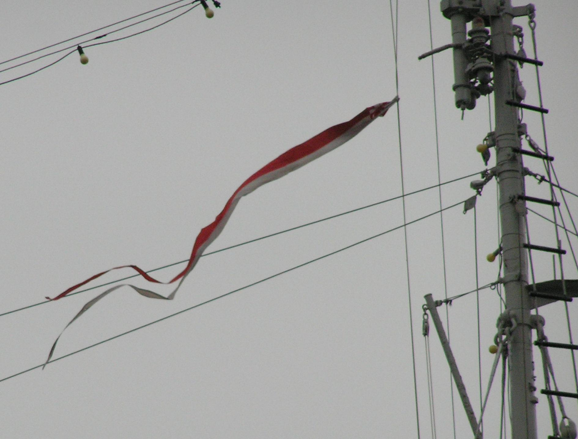 Polish sign of commanding officer of a ship.